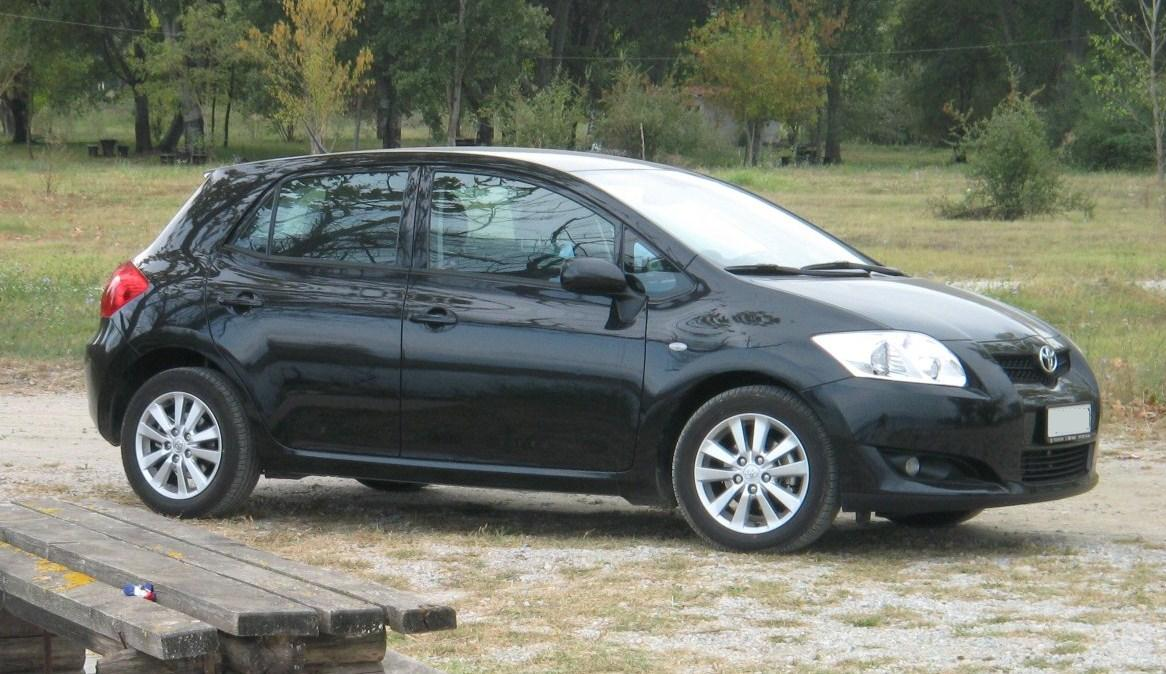 Toyota Auris